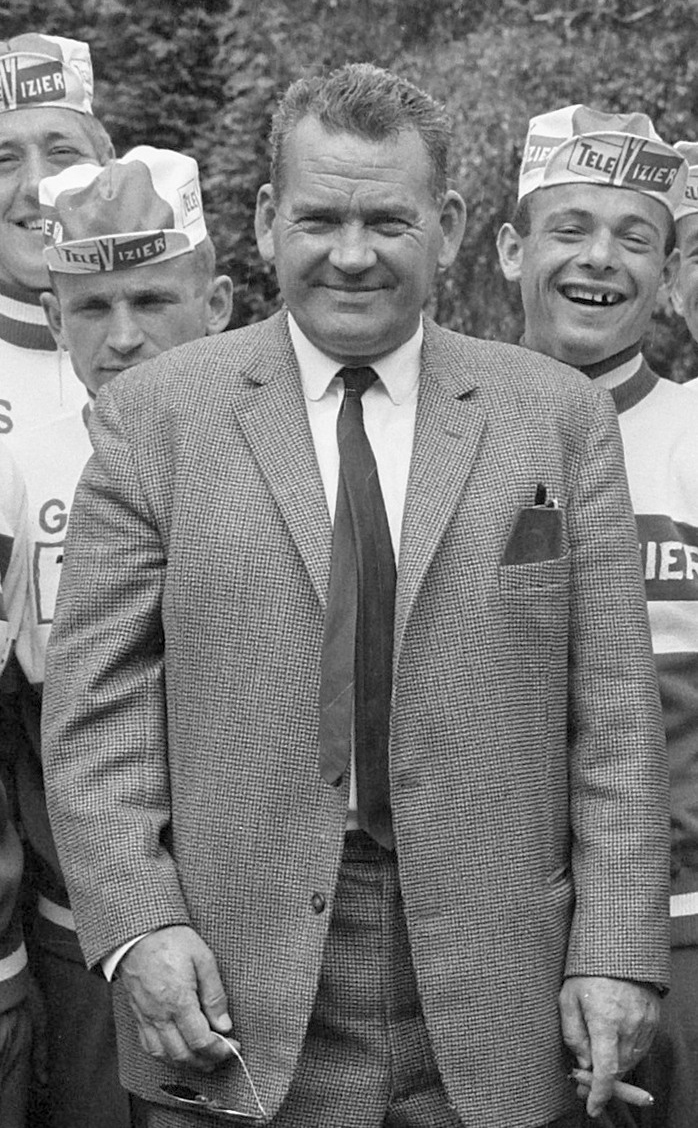 Televizierploeg te Breda voorgesteld, Kees Pellenaars